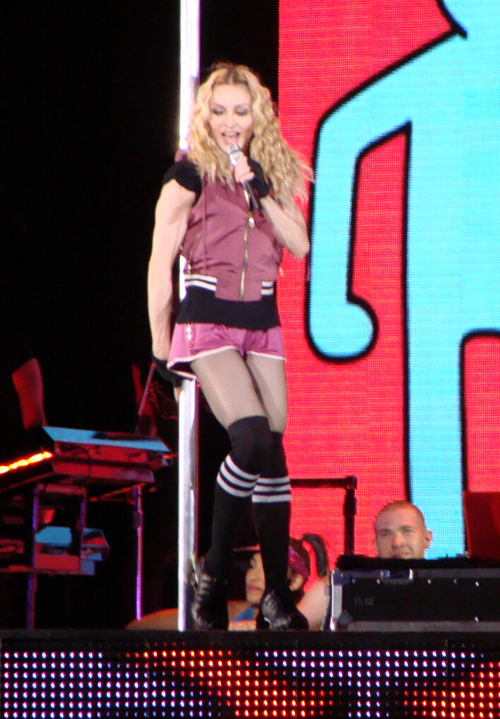 Cropped from photo taken at a concert